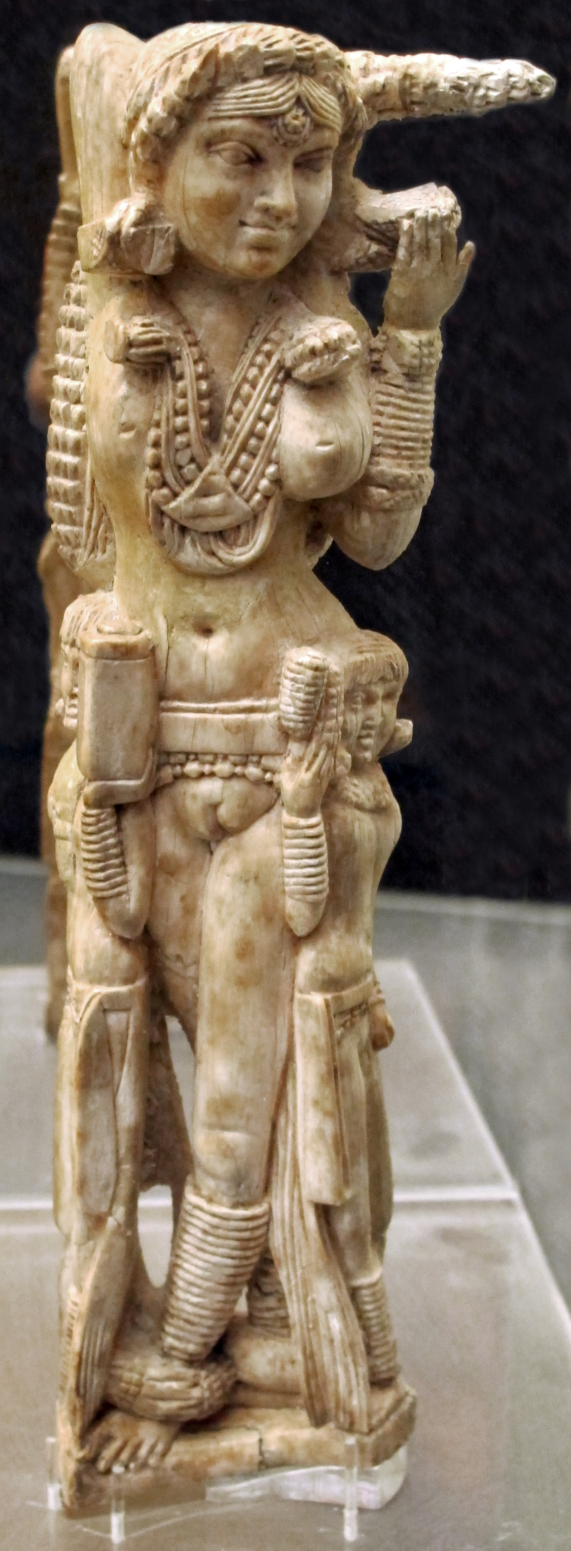 Pompei Lakshmi statuette